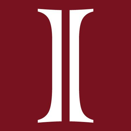 Isenberg School of Management logo.